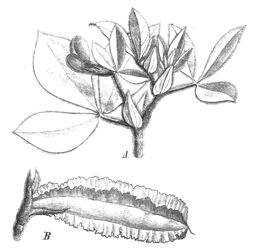 Illustration from book